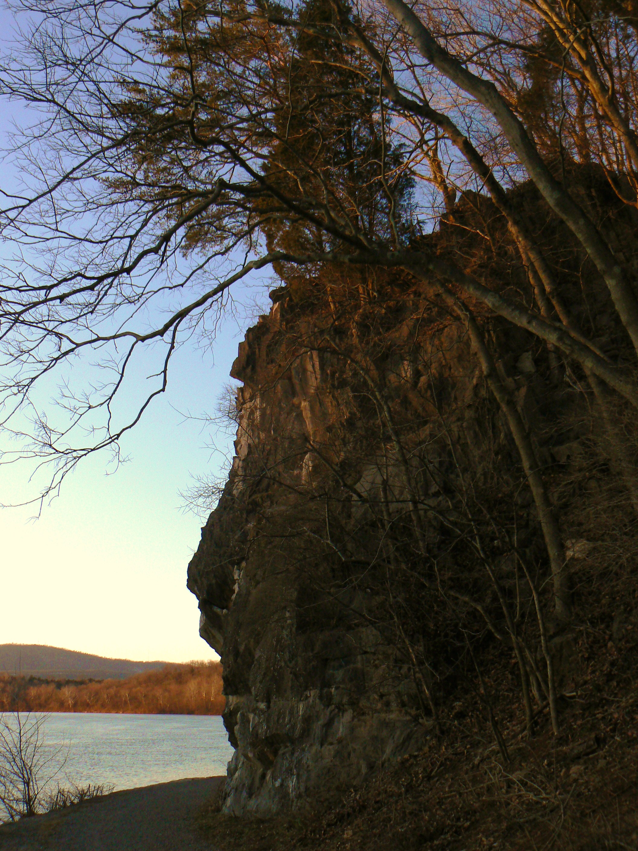 The face in the cliff near Two Locks on the C&O Canal. This escarpment is thought to be a "hollow hill", and contains several caves on both sides of the cliff, along with a suspiciously deep well atop its peak.